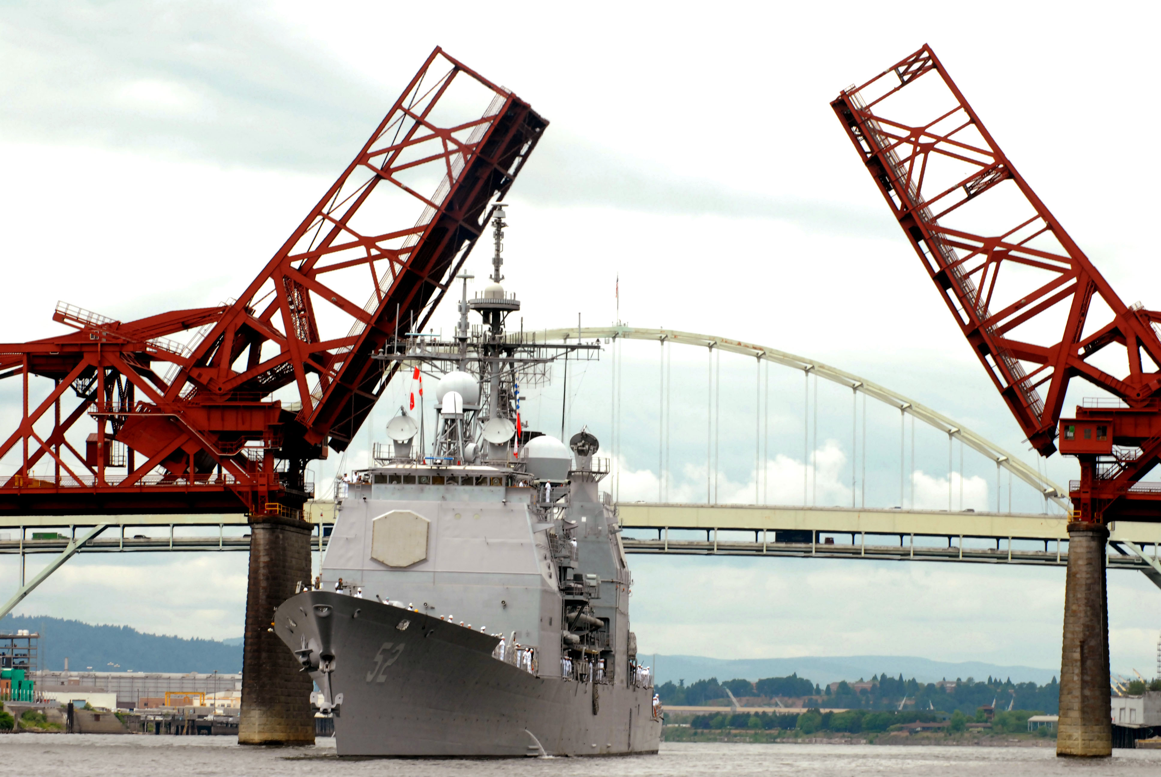 WILLAMETTE RIVER (June 7, 2007) - The guided-missile cruiser USS Bunker Hill (CG-52) makes her way up the river and under the Broadway Bridge enroute to Portland, Oregon, to participate in the 100th Annual Rose Festival. Bunker Hill is just one of four U.S. Navy ships pulling into Portland for the 100th Annual Rose Festival Fleet Week Celebration.